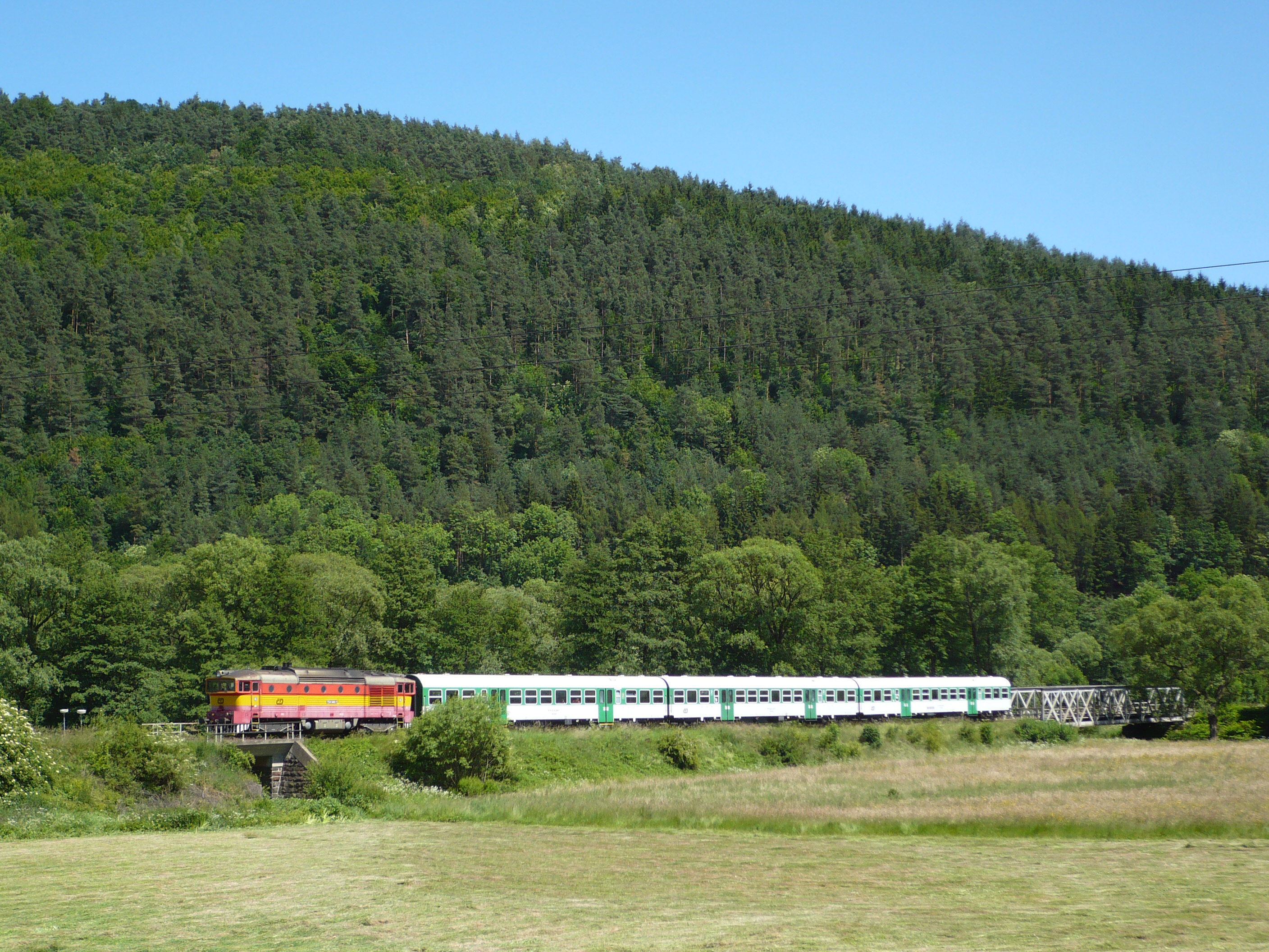 Diesel locomotive 754 with train no. 14912 just passed a brige over Svratka by Černvír.